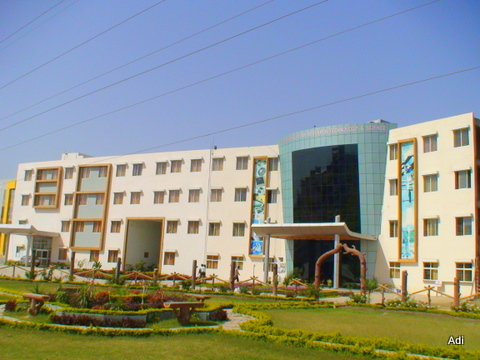 Picture of the College Sagar Institute of Research, Technology & Science (SIRTS)